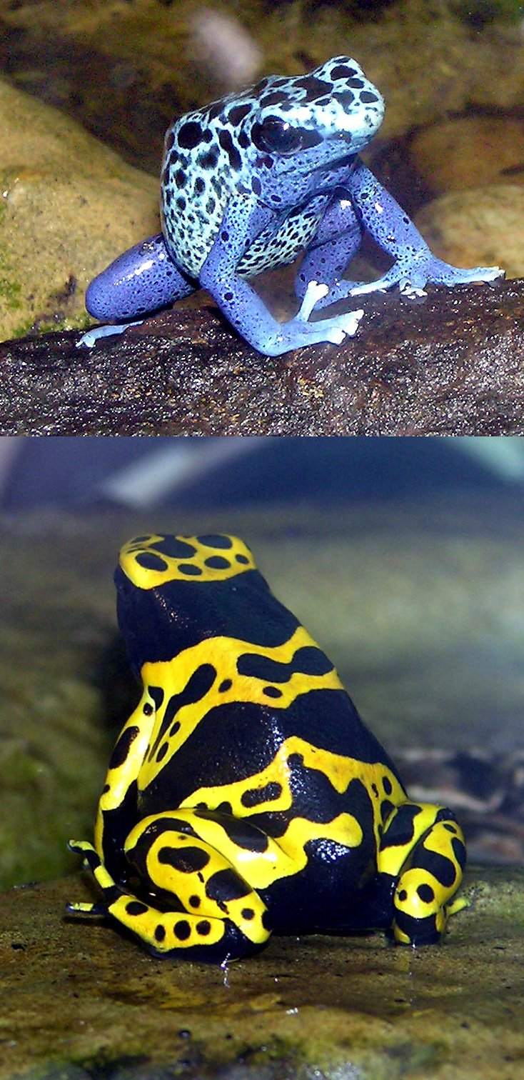 Blue Poison Dart frog Dendrobates azureus at Bristol Zoo, Bristol, England. Photographed by Adrian Pingstone in September 2005 and released to the public domain. Yellow-banded Poison Dart frog Dendrobates leucomelas at Bristol Zoo, Bristol, England. Photographed by Adrian Pingstone in May 2005 and released to the public domain.